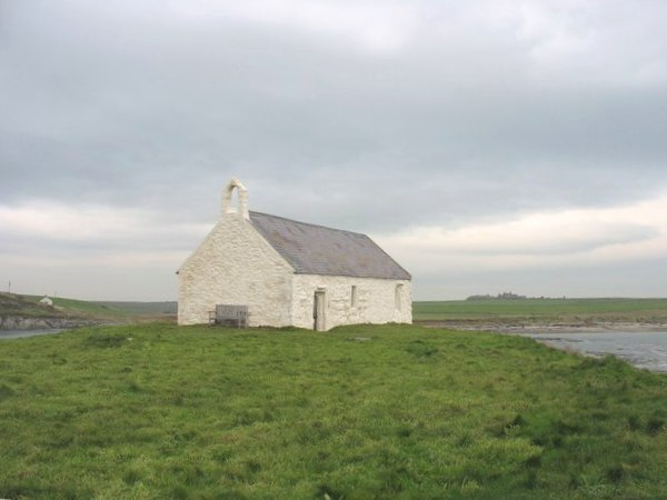 The whitewashed St Cwyfan's Church In 2005 Cadw (the Welsh Historical Monuments Commission) made the grant for the restoration of the church conditional upon its outside being whitewashed. This move was unsuccessfully opposed by some members of the local community.